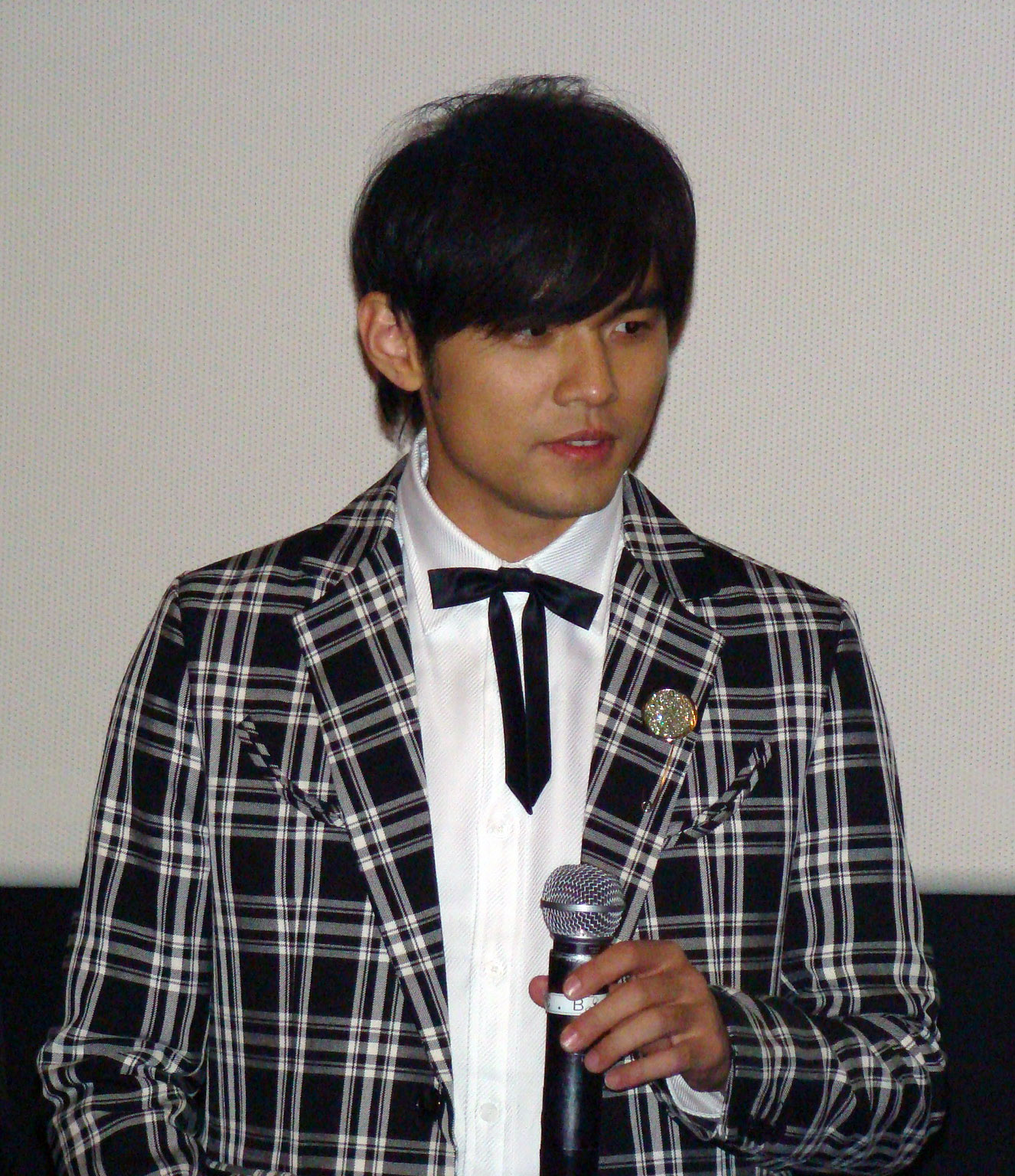 Jay Chou at the premiere of "Secret" in Seoul, South Korea, on Jan 10th, 2008.Bân-lâm-gú: Tsiu kia̍t-lûn î 2008-nî lâm Hân tshut-si̍k tiān-iánn Put-lîng sueh ê, pì-bi̍t(不能說的‧秘密) siú-ìng-huē.周杰倫於2008年南韓出席電影【不能說的‧秘密】首映會。